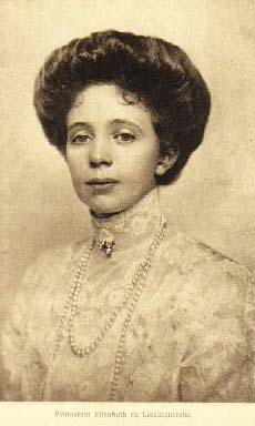 Archduchesse Elisabeth Amalie of Austria (1878-1960), Duchess consort of Liechtenstein, Sister of Franz Ferdinand of Austria